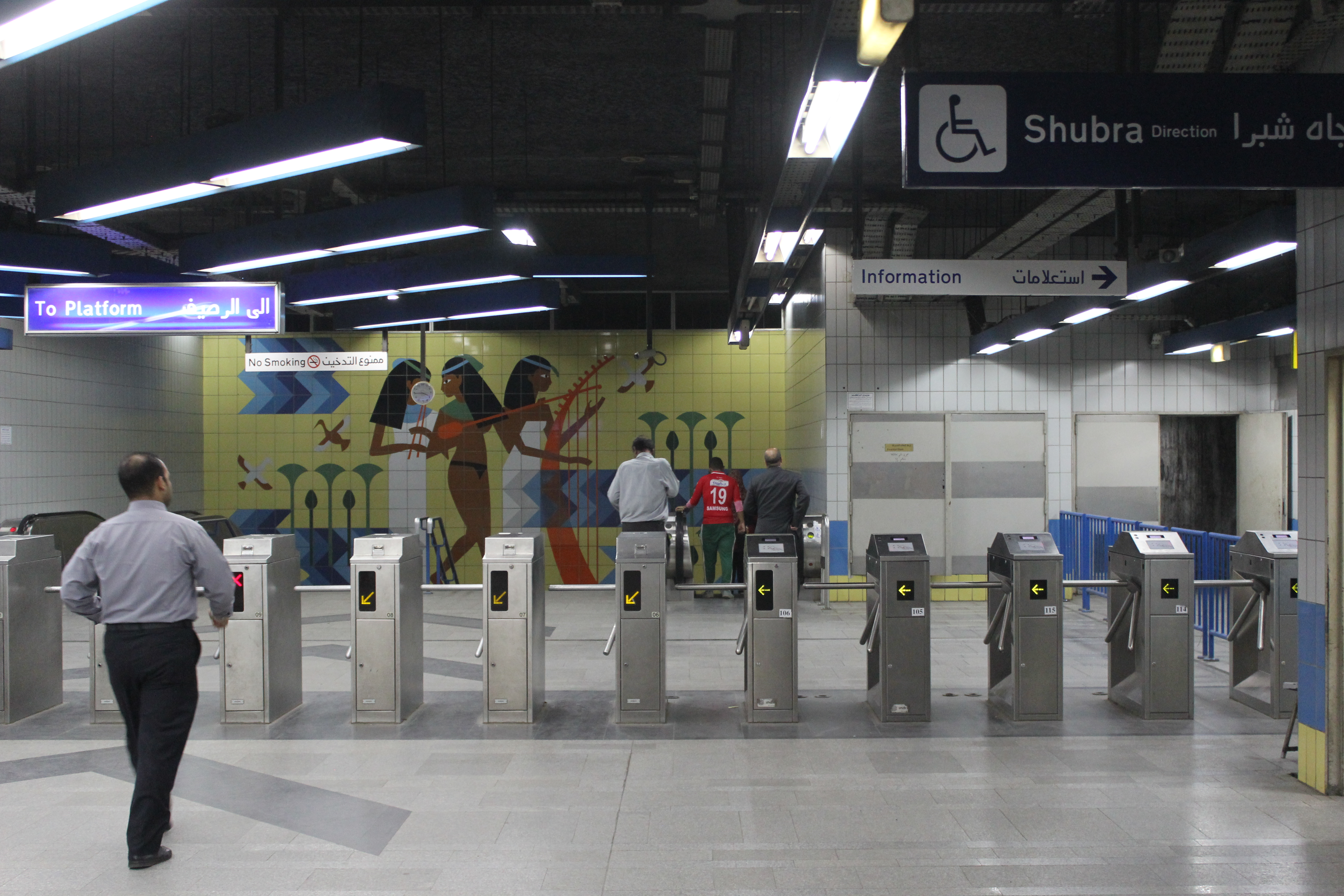 Train ticket bariiers in Cairo metro